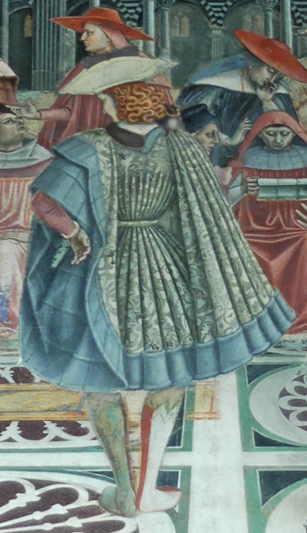 Detail of Pope Celestine III granting the privilege of autonomy to the Hospital, detail of a fresco by Domenico di Bartolo. Sala del Pellegrinaio (hall of the pilgrim), Hospital Santa Maria della Scala, Siena.